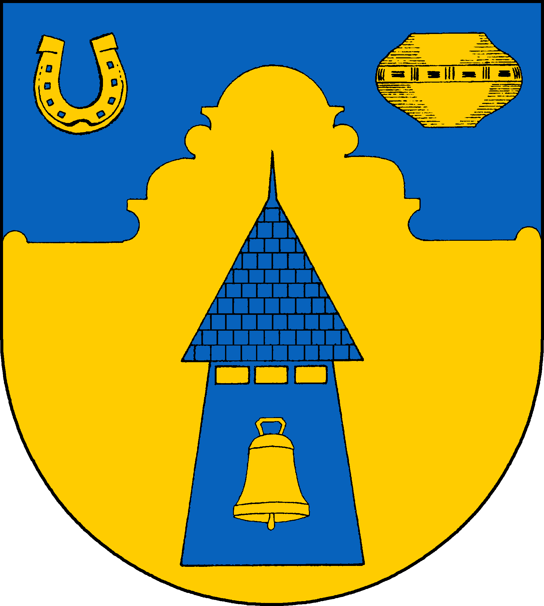 Coat of arms of the municipality Norderbrarup in Schleswig-Holstein, Germany.